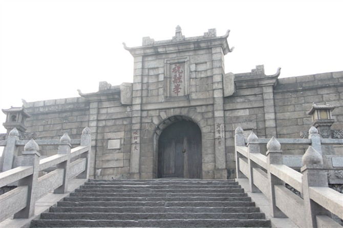 Mount Heng, is located in Hunan Province, People's Republic of China and is one of the Five Great Mountains in China.This photo shows Zhu Rong Peak.